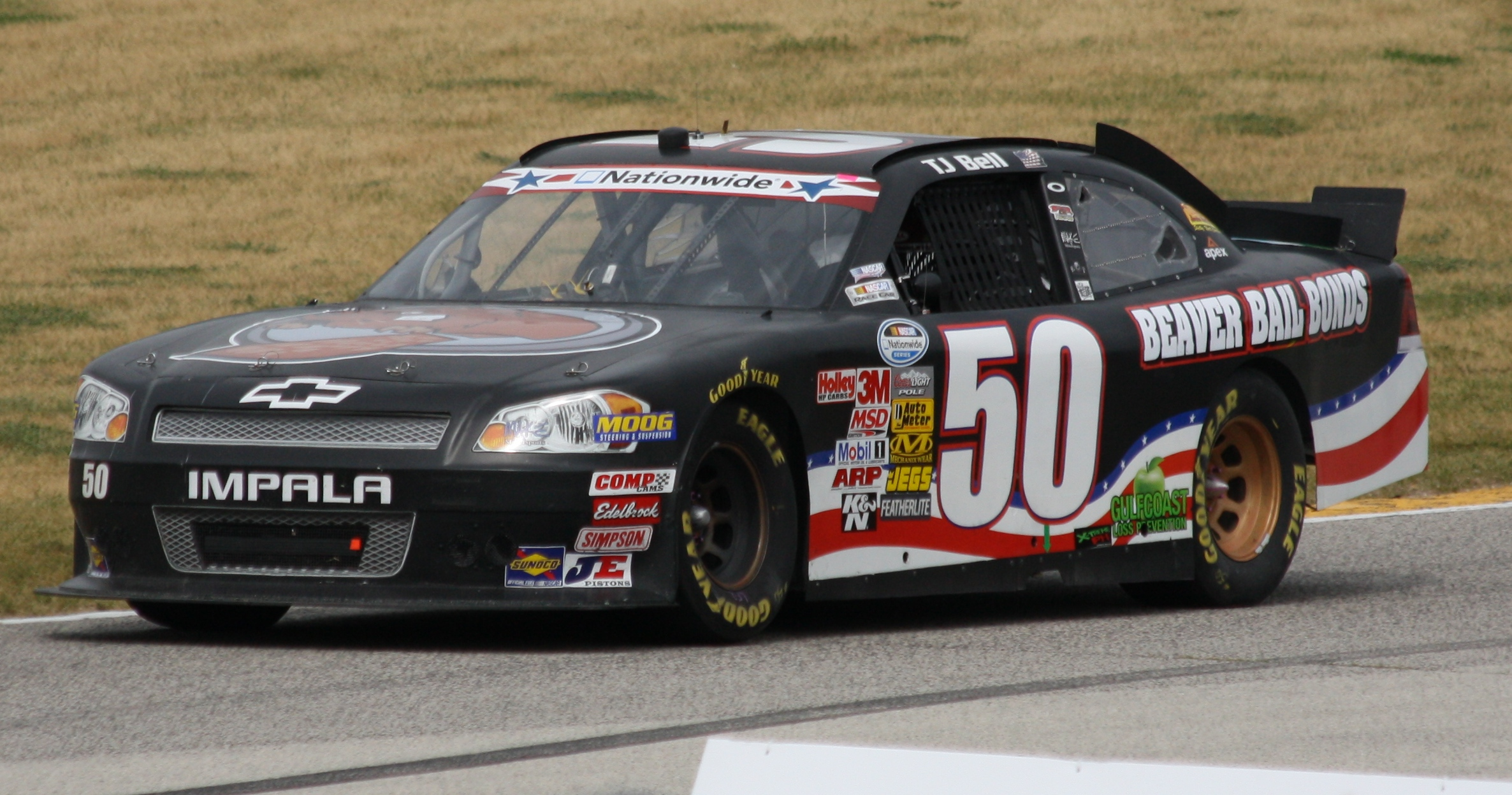 T. J. Bell NASCAR Nationwide Series car at Road America at the 2012 Sargento 200.